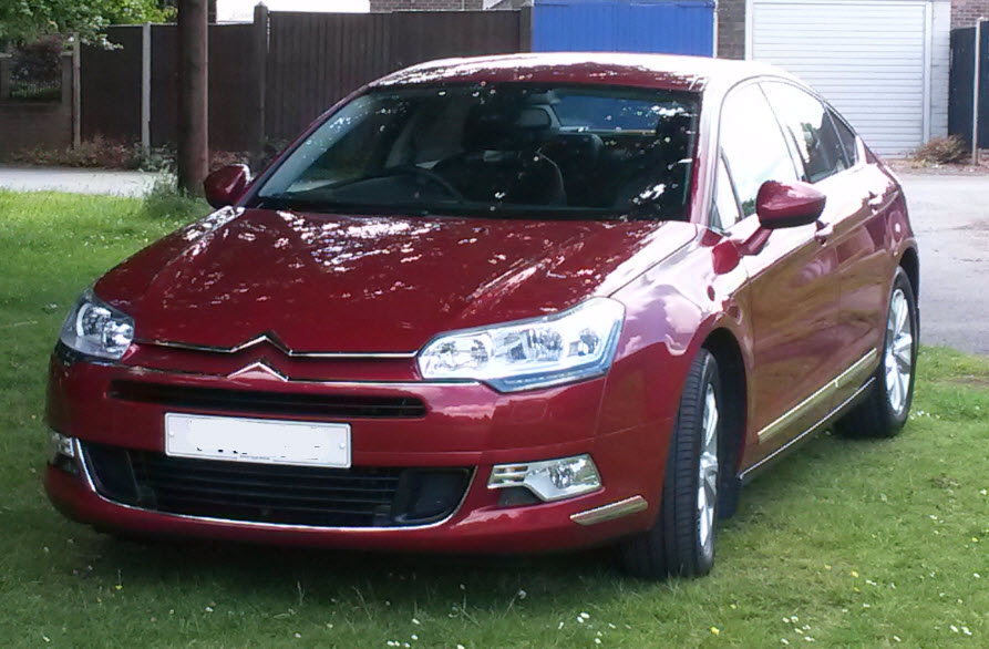 2011, C5 (X7), 2.0HDi Auto, in Eritrea Red